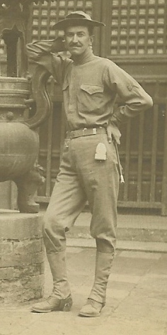 Photograph of Medal of Honor winner Martin Hunt, circa 1895-1910.